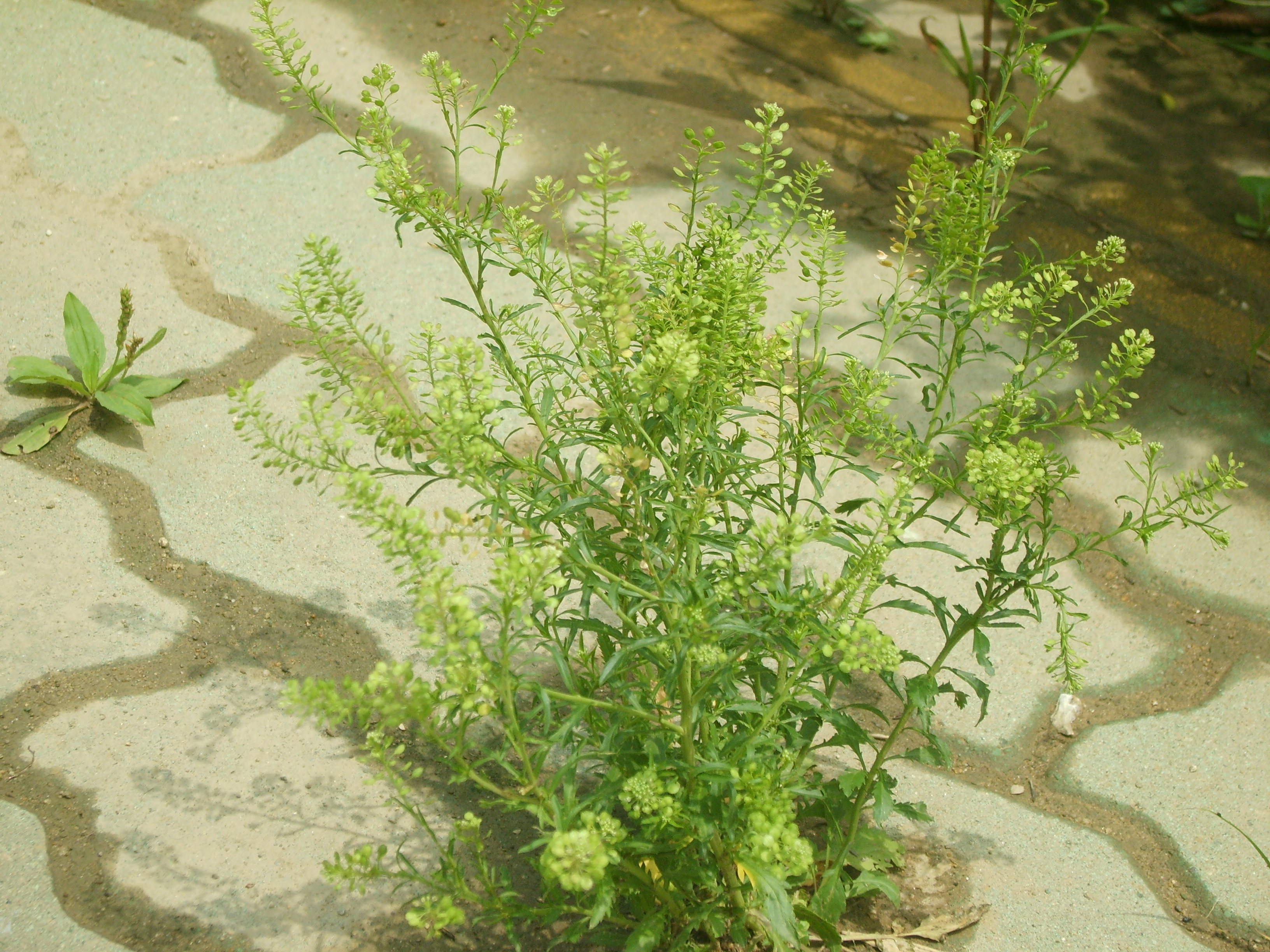 Lepidium apetalum in Incheon, Korea